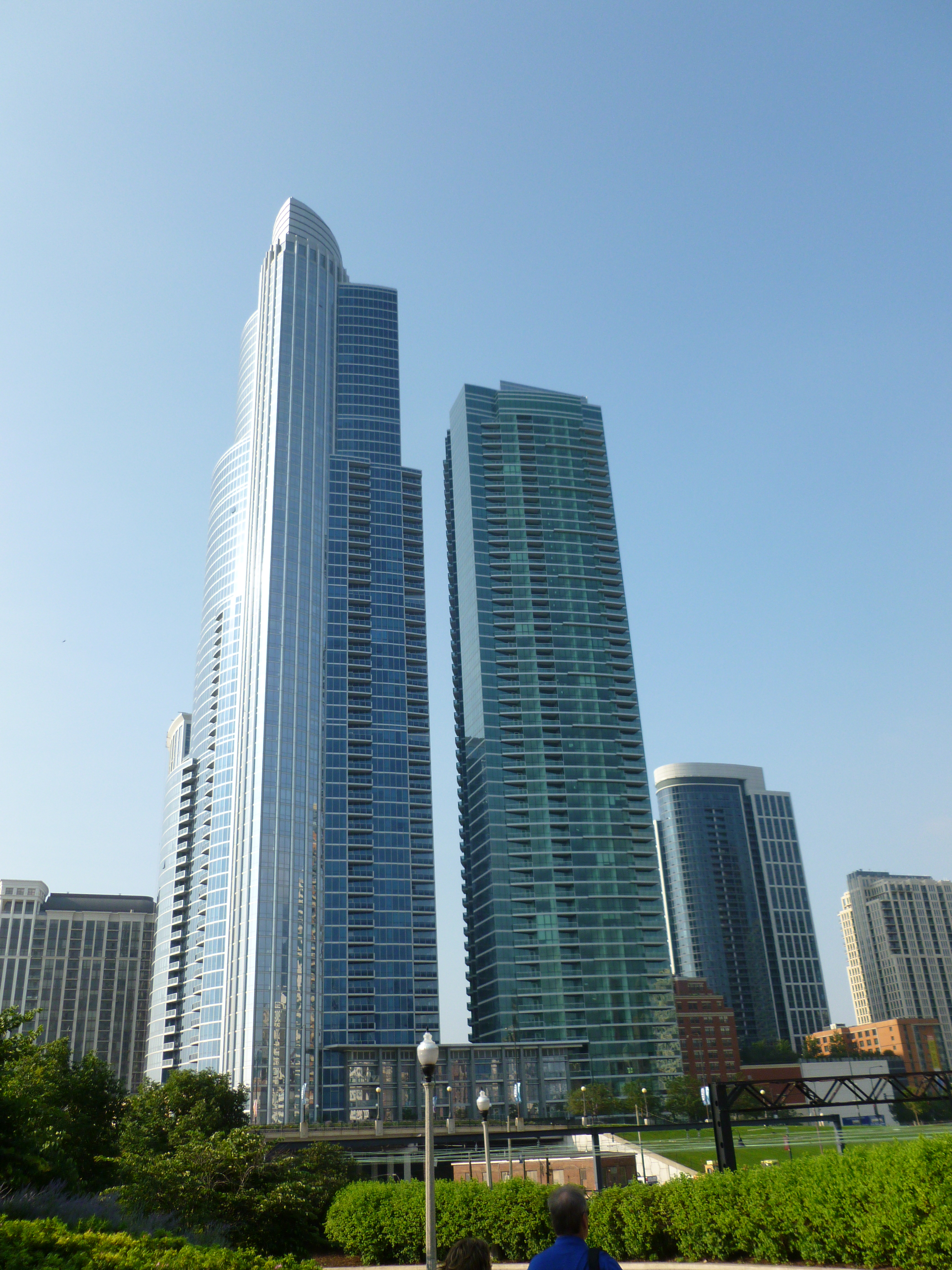 One Museum Park (left) and One Museum Park West (right) in 2011